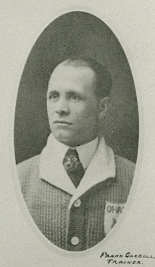 Trainer Frank Carroll of the Toronto Arenas hockey club ca. 1917–1918